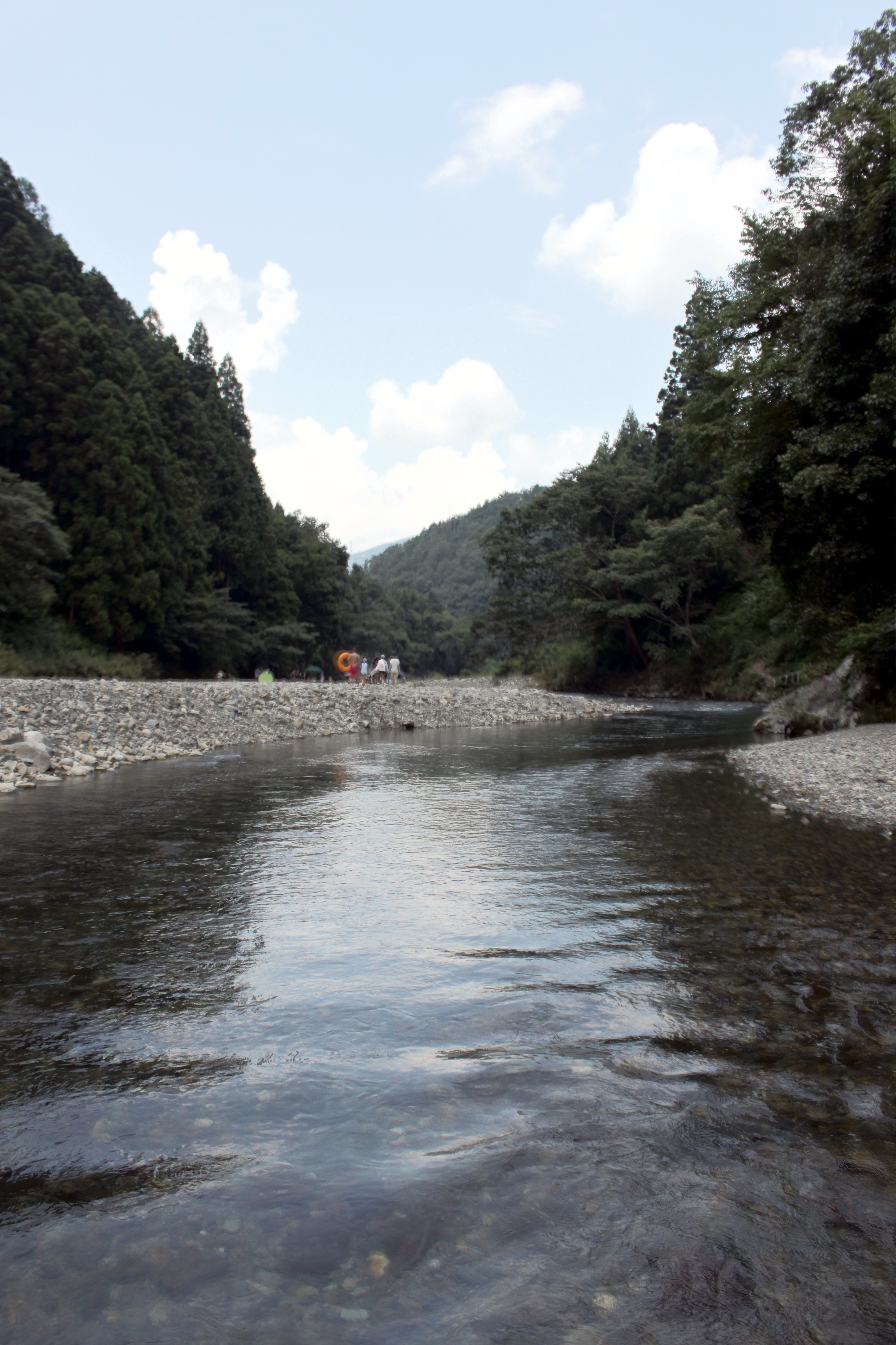 Forest and River in Kamiishizu, Ogaki City, Japan